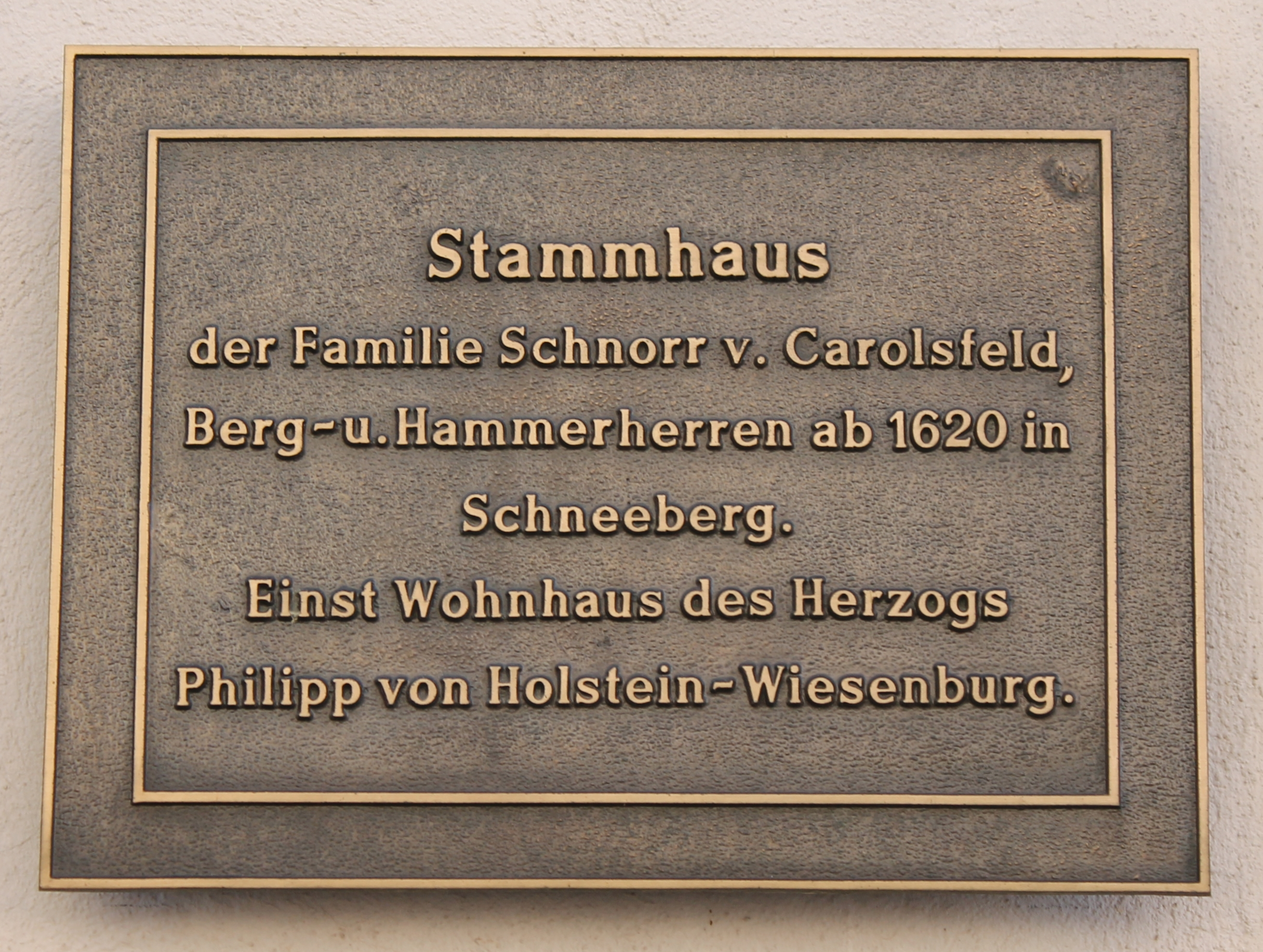 Description plate. House of Schnorr von Carolsfeld family in Schneeberg, Ore Mountains, Saxony, Germany.